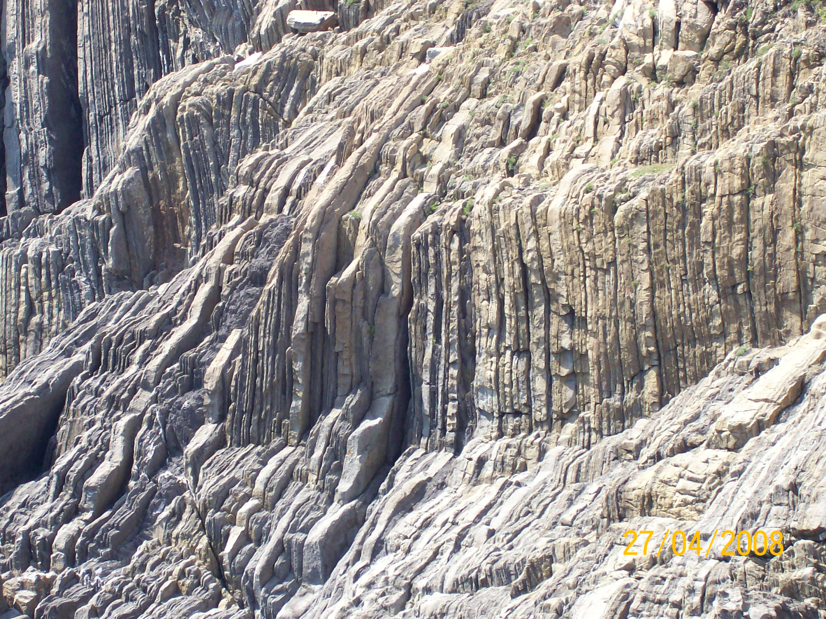 In this photo, taken on the Italian seaside, there are some grey rocks.